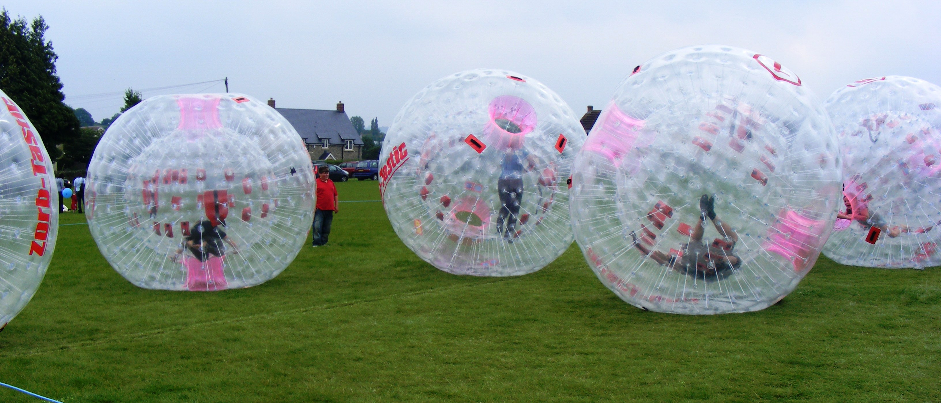 Zorbs at the Chew Stoke Harvest Home 2010